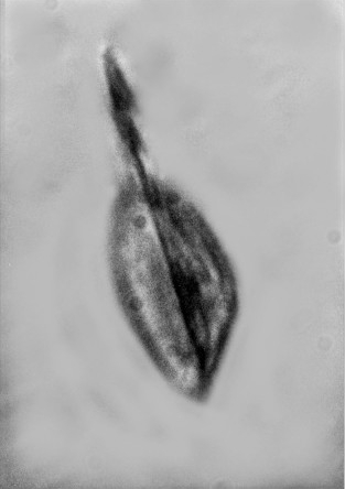 Photo and drawing of Oxymonas protus n. sp.R=rostellum, N = nucleus, A = putative axostyle, F = fibrousstructure. Bar = 15 μm.